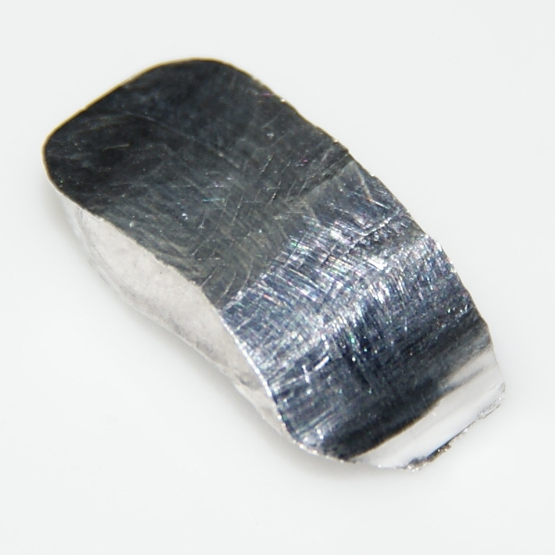 Indium is a rare metal with a low melting point. It is very soft and can be cut with a knife. Indium is much used in the industry. Indium tin oxide is transparent, but has a good electrical conductivity. Therefore it is used in nearly every modern display device, which made indium a scarce material, that is in danger of running out.